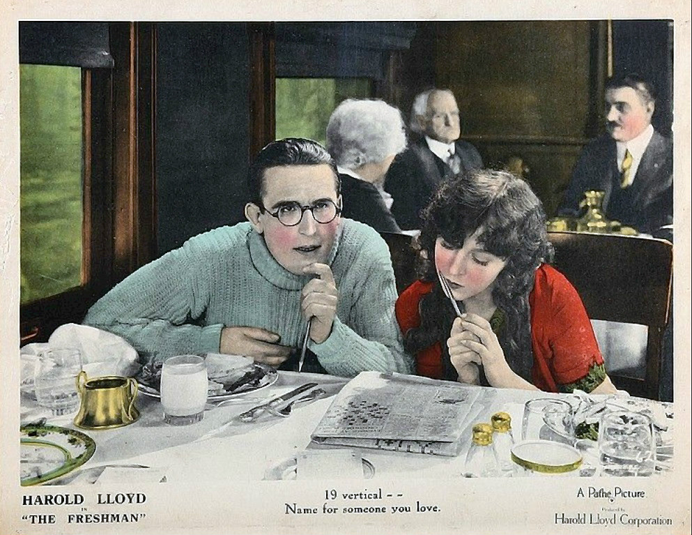 Lobby card from the American comedy film The Freshman (1925).